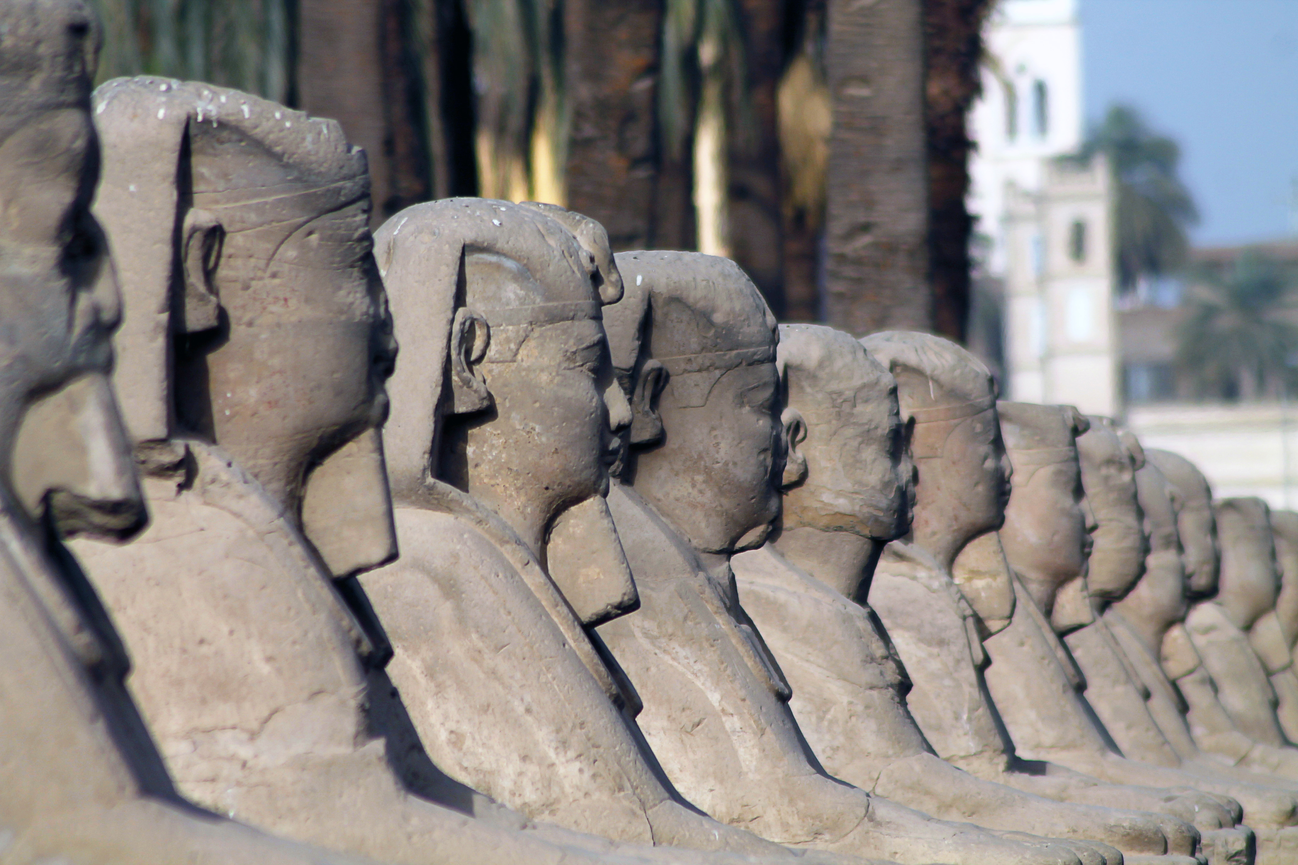 Elkebash Road at Luxor Temple